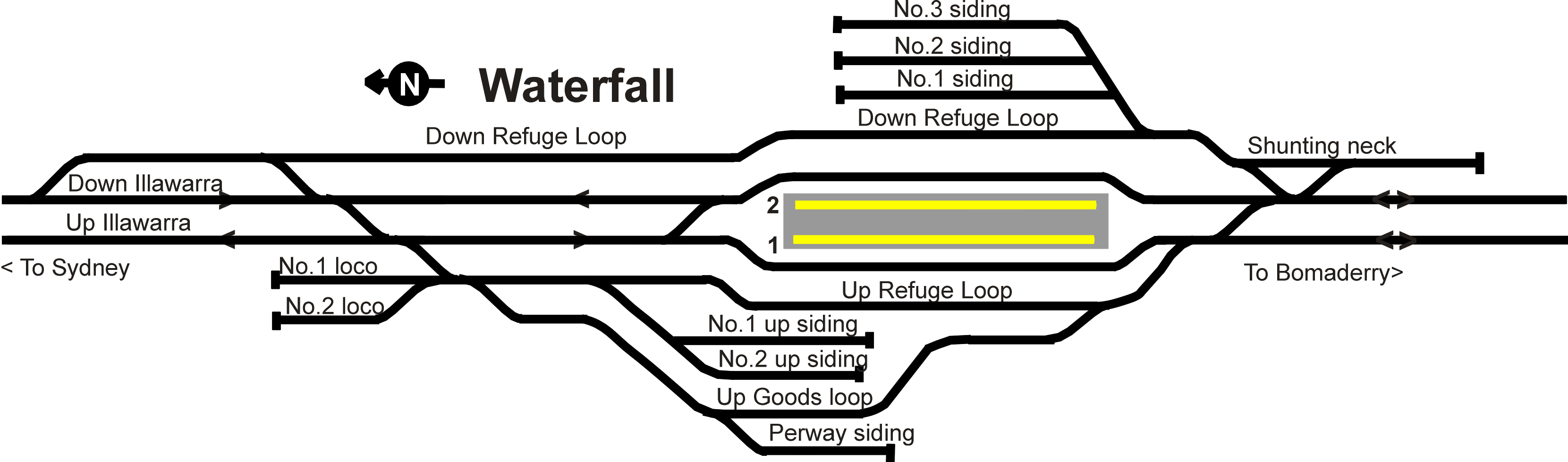 Track layout at Waterfall railway station.